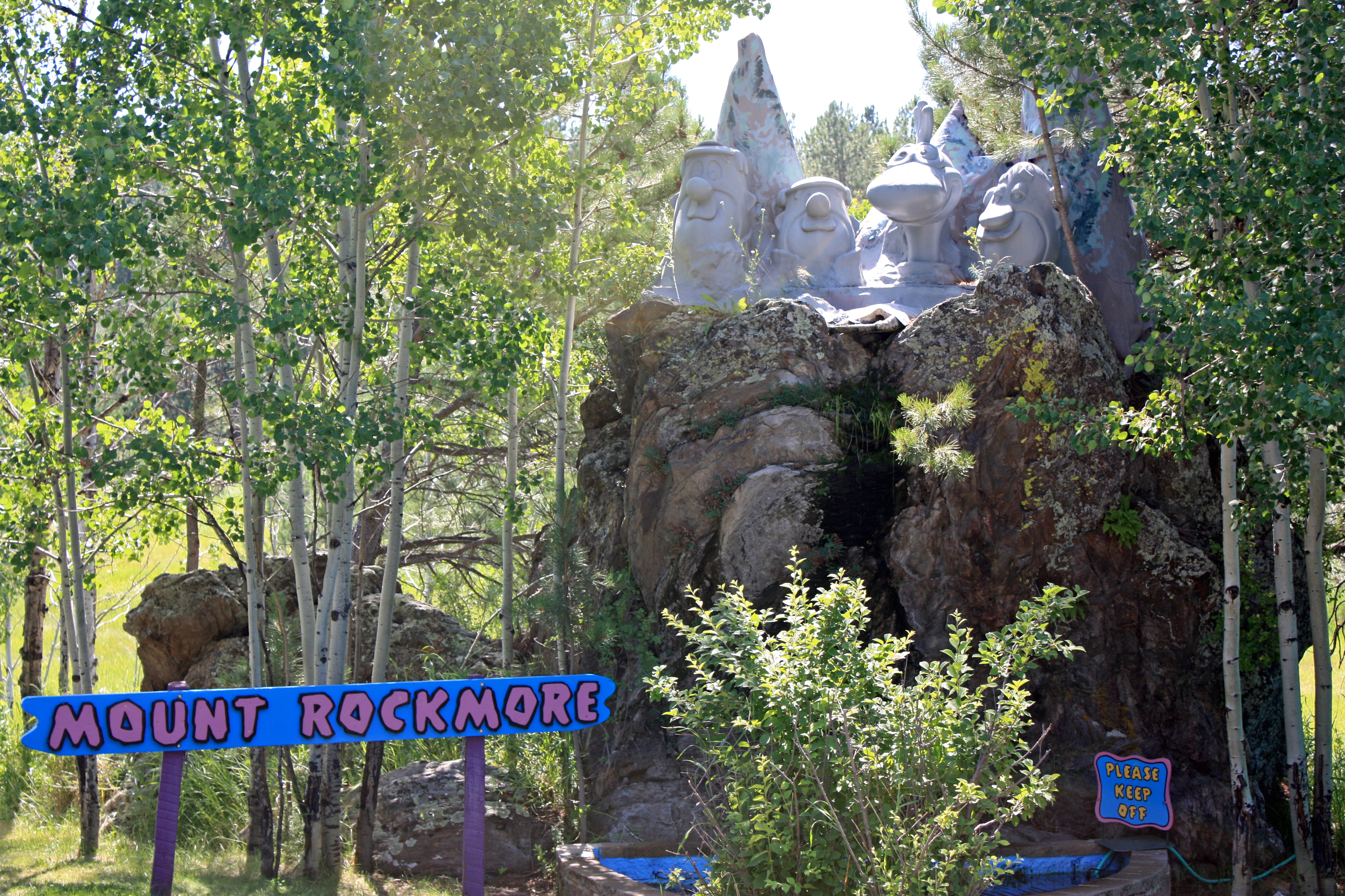 Mount Rockmore at Bedrock City, a tourist attraction in Custer, South Dakota